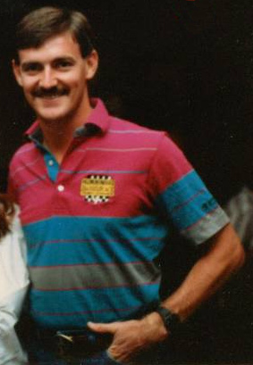 NASCAR driver Davey Allison posing with a fan at Pocono, Pennsylvania.